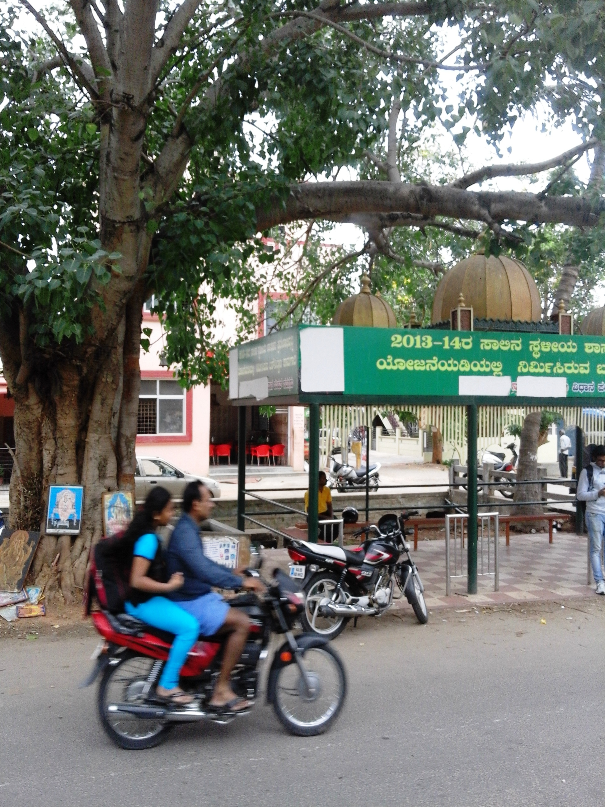 Made Gowda Circle, CITB Choultry, Near Surya Bakery Junction, Hebbal,Mysore city, Karnataka province, India